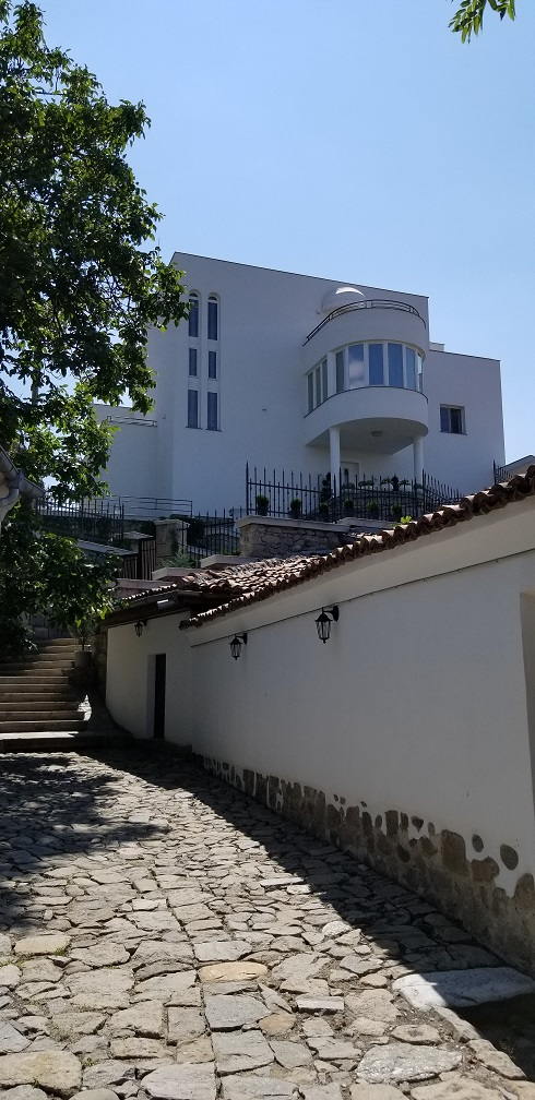 House of Staynov in Plovdiv